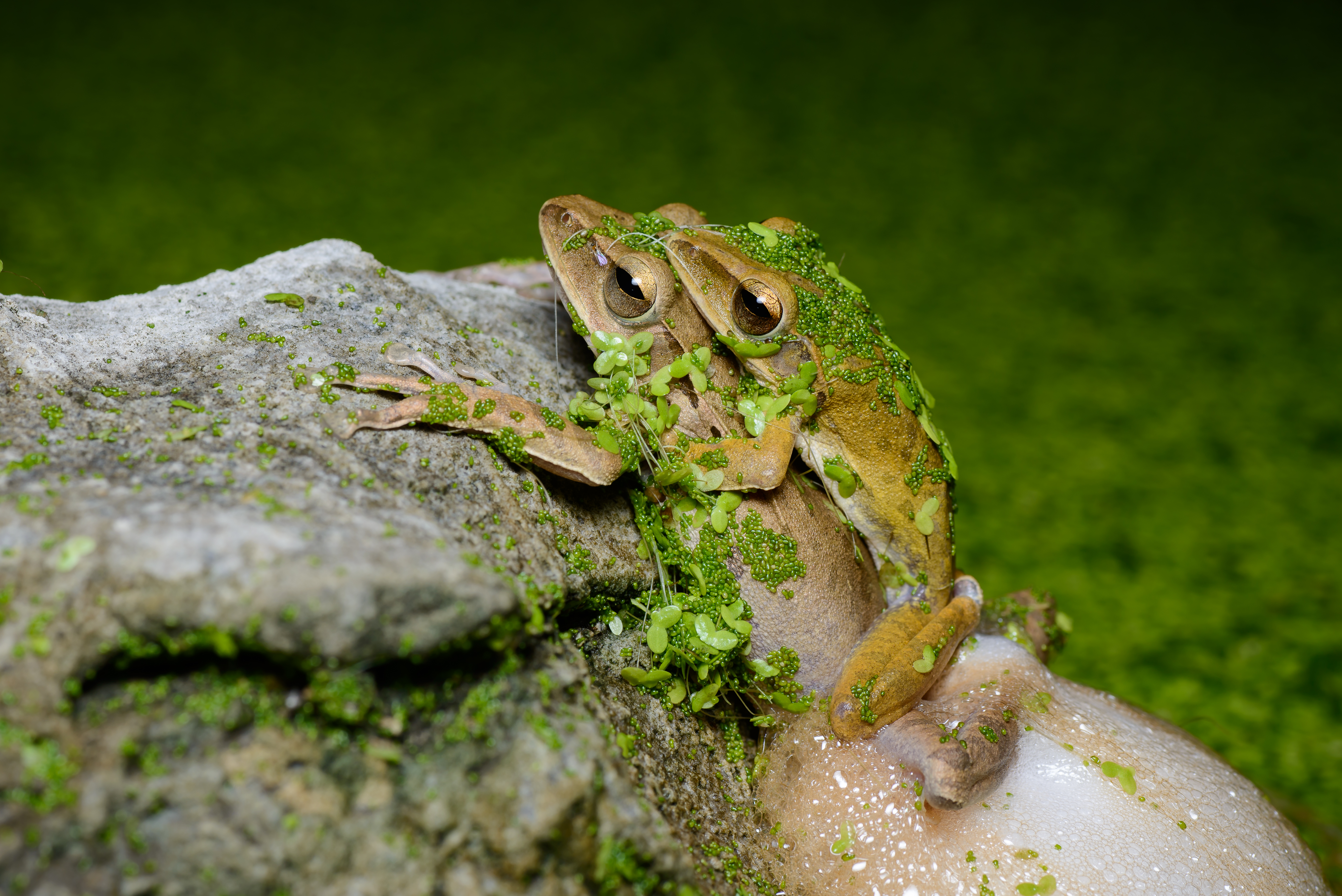 Mating spot-legged tree frogs (Polypedates megacephalus). Khao Nang Phanthurat Forest Park, Thailand.